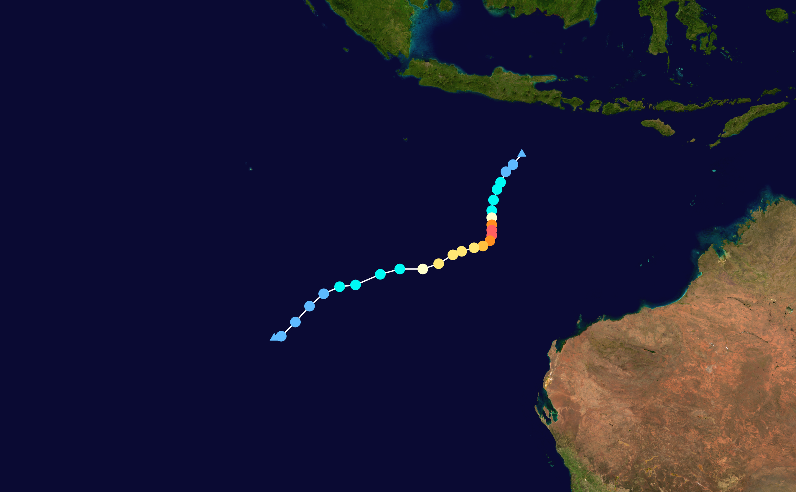 Track map of Severe Tropical Cyclone Ernie of the 2016-17 Australian region cyclone season. The points show the location of the storm at 6-hour intervals. The colour represents the storm's maximum sustained wind speeds as classified in the Saffir–Simpson scale (see below), and the shape of the data points represent the nature of the storm, according to the legend below. Saffir–Simpson scale Tropical depression≤38 mph≤62 km/h Category 3111–129 mph178–208 km/h Tropical storm39–73 mph63–118 km/h Category 4130–156 mph209–251 km/h Category 174–95 mph119–153 km/h Category 5≥157 mph≥252 km/h Category 296–110 mph154–177 km/h Unknown Storm type Tropical cyclone Subtropical cyclone Extratropical cyclone / Remnant low / Tropical disturbance / Monsoon depression